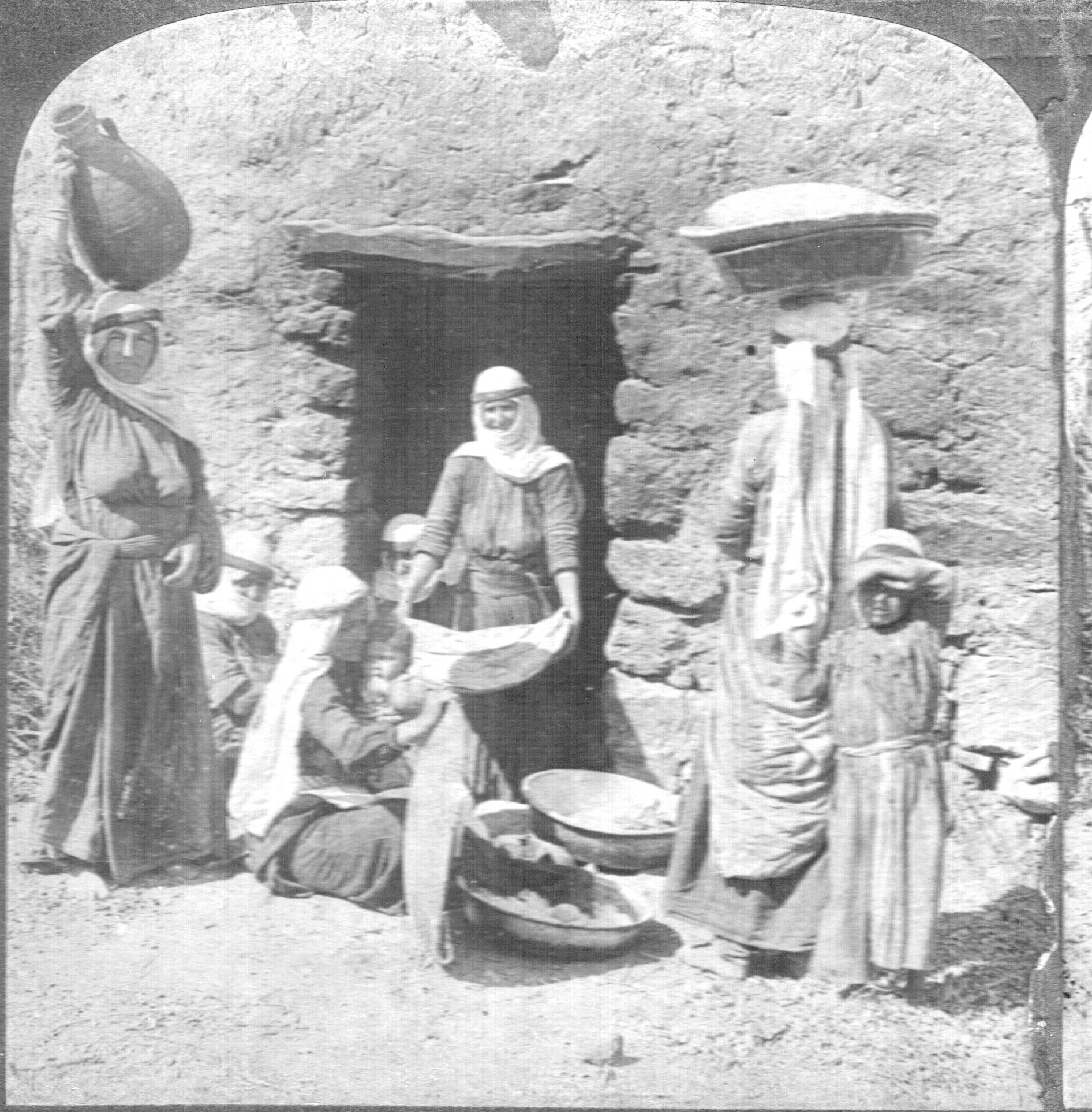 Druze women at the village owen, Dalleh, Mount Carmel around 1880. Scanned photo of a stereoview. Left part. PD-Underwood. Copyright 1900 by Underwood and Underwood (Kat.No 78). Publishers New York London Toronto-Canada Ottawa Kansas. ©© Published under Creative Commons in the Metapolisz DVD line. All of the photos and vids in the Metapolisz DVD line are under Creative Commons and can be used even for commercial – for profit – purposes. Recommended Citation Derzsi Elekes Andor: Metapolisz DVD line